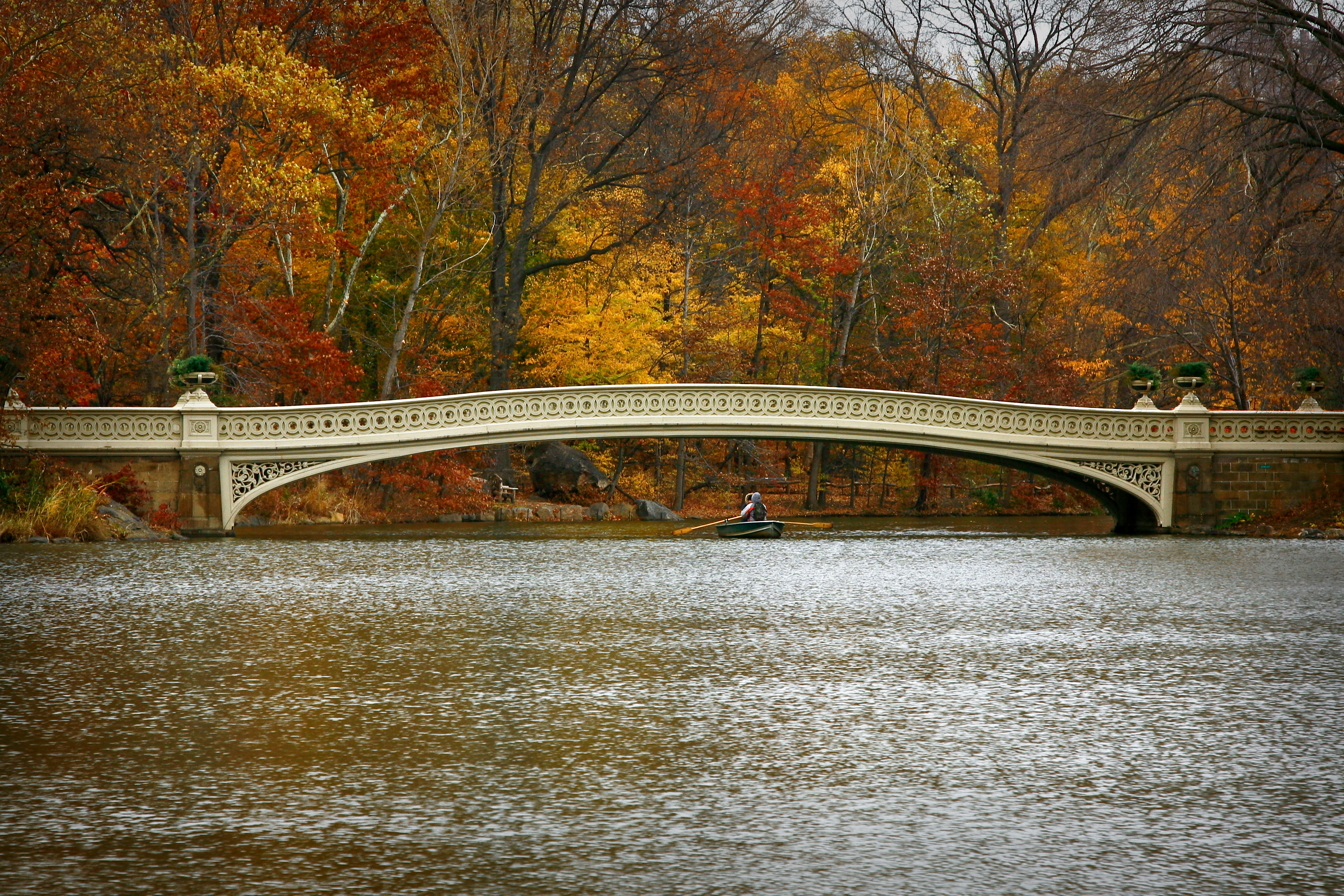 Bow Bridge over The Lake in Central Park on Thanksgiving Day 2010.